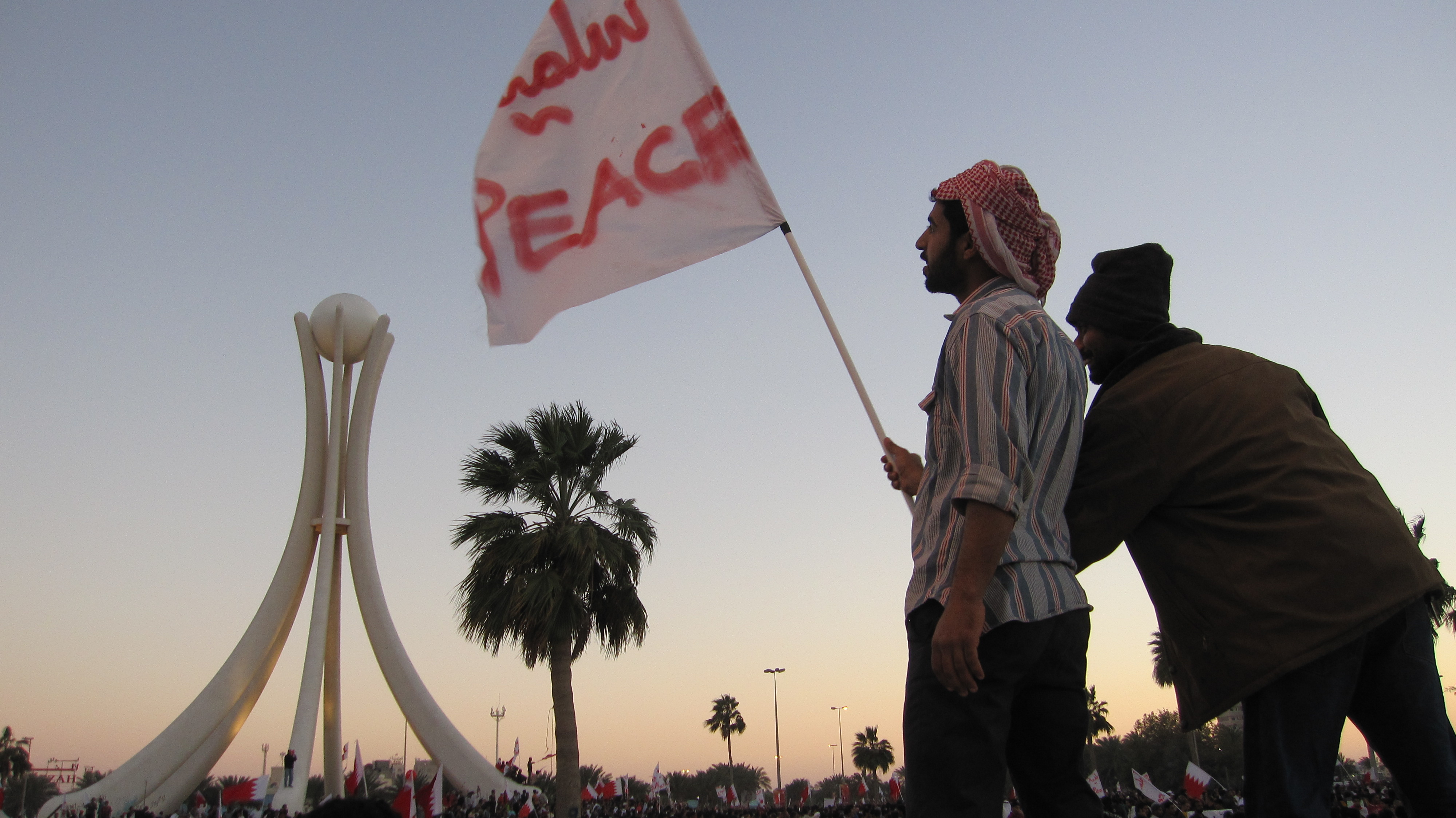 Men stand atop a car with a flag that says "PEACE" in Arabic and English.